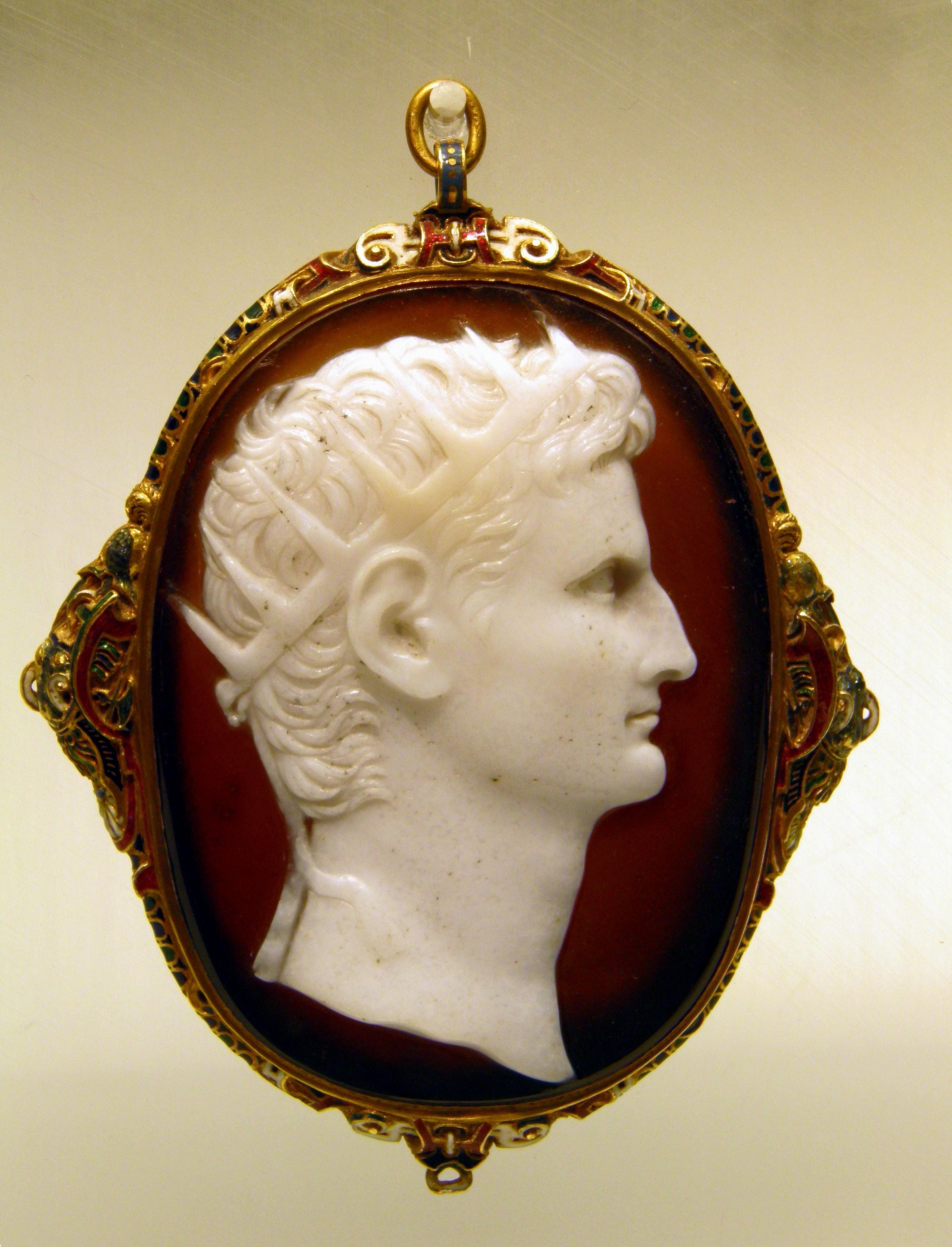 First-century AD cameo of Augustus wearing the rayed crown of the sun god, signifying his deification, Romisch-Germanisches Museum, Cologne